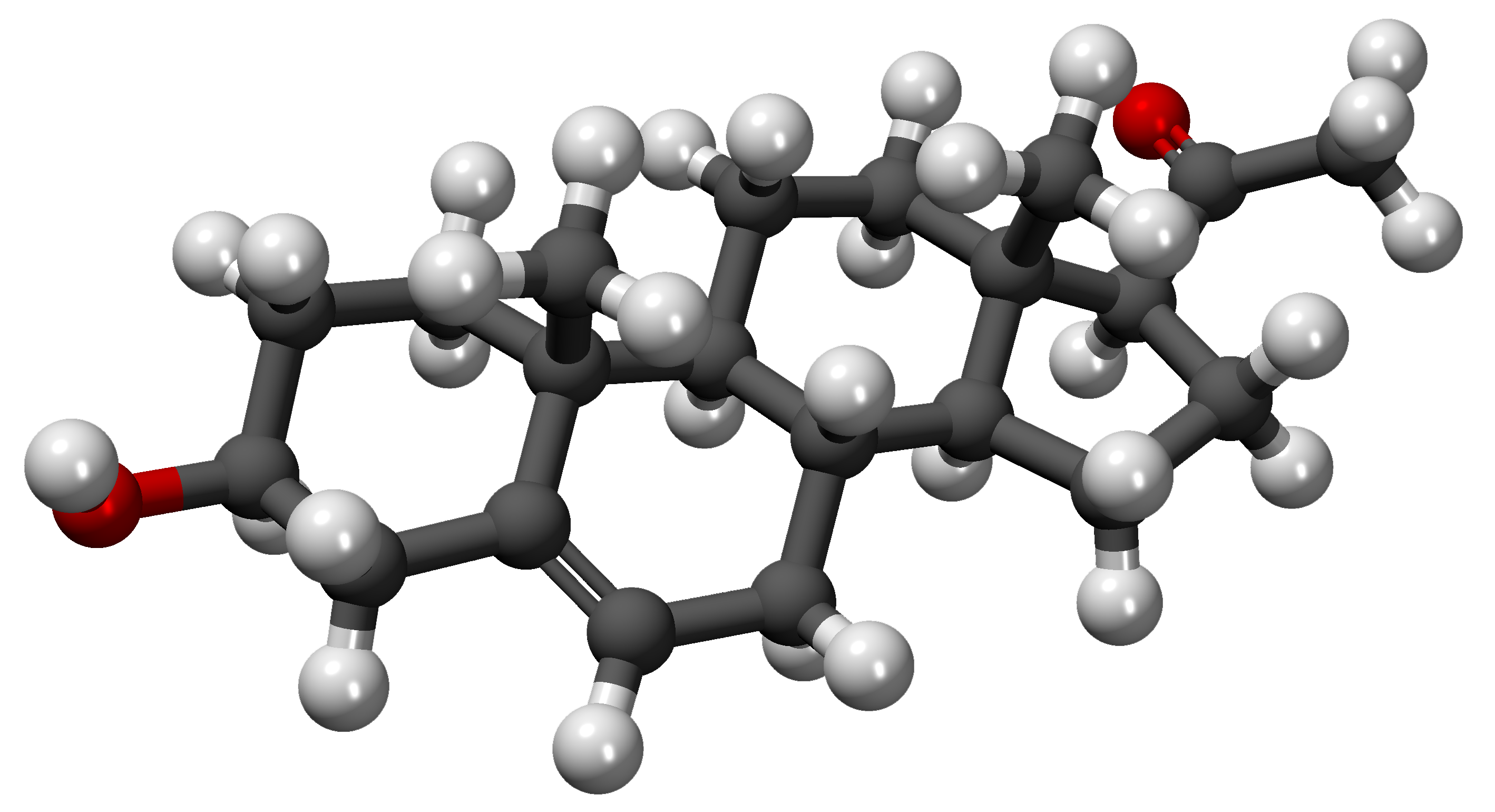 Ball-and-stick model of the Pregnenolone molecule C21H32O2. Model constructed using ACD/ChemSketch and Accelrys DS Visualizer.